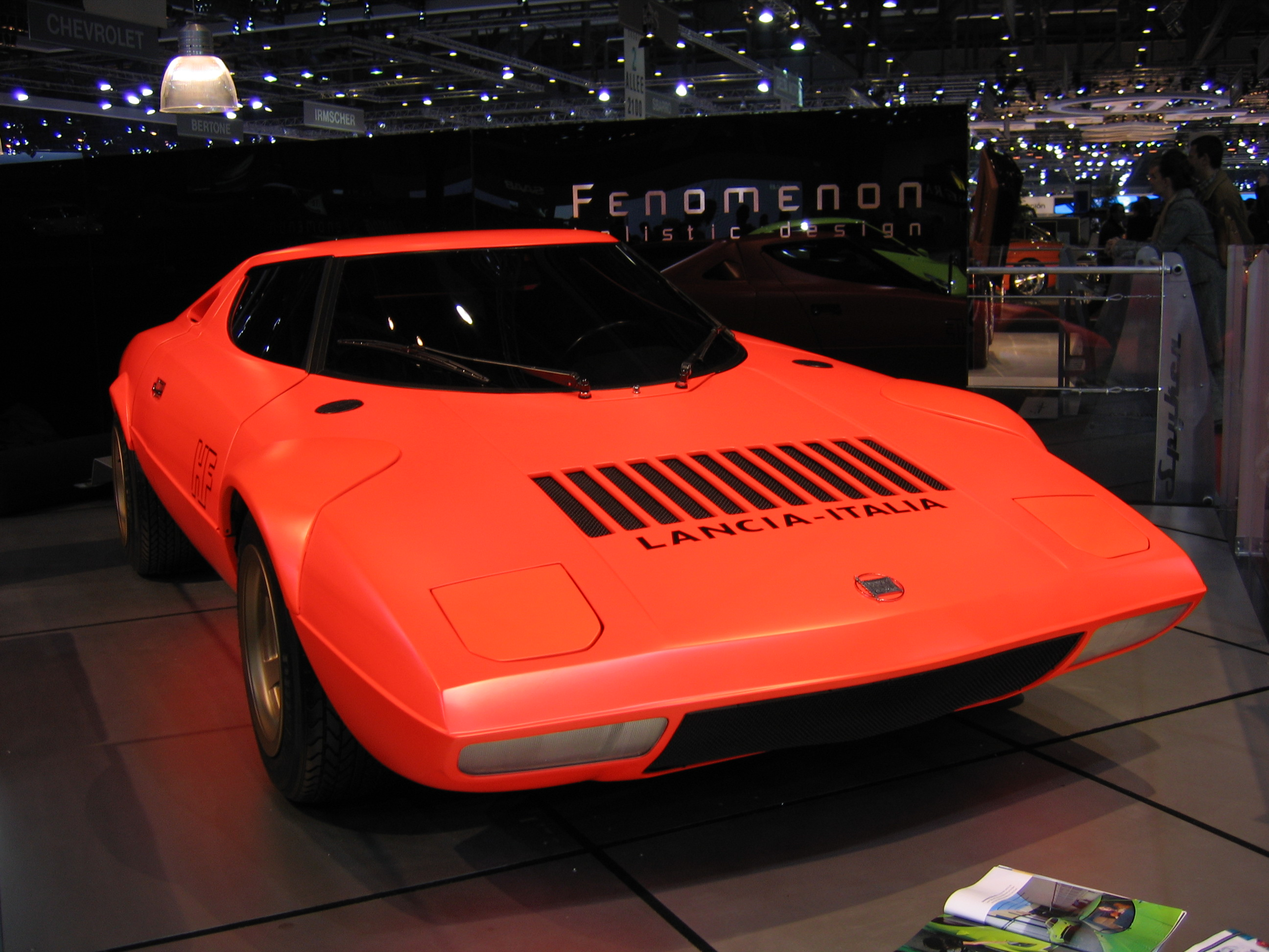 Geneva Motor Show 2005